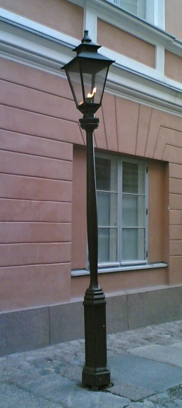 A historic gas street light on Sofiankatu street in Helsinki, Finland.